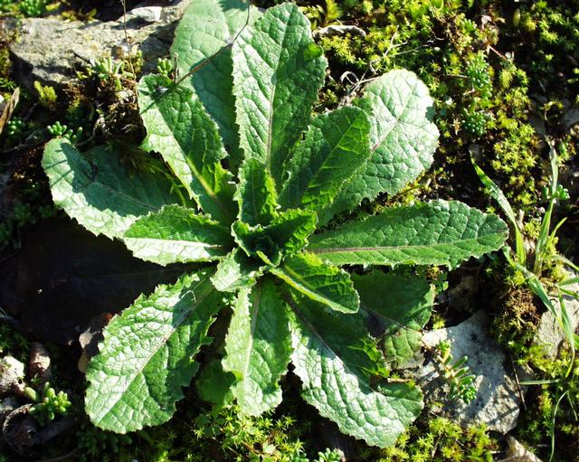 (en) Lactuca virosa, a photography originating of the internet site The accord of the autor, H. Brisse, is here. (fr) Lactuca virosa, une photographie issue du site internet L'accord de l'auteur, H. Brisse, se situe ici.